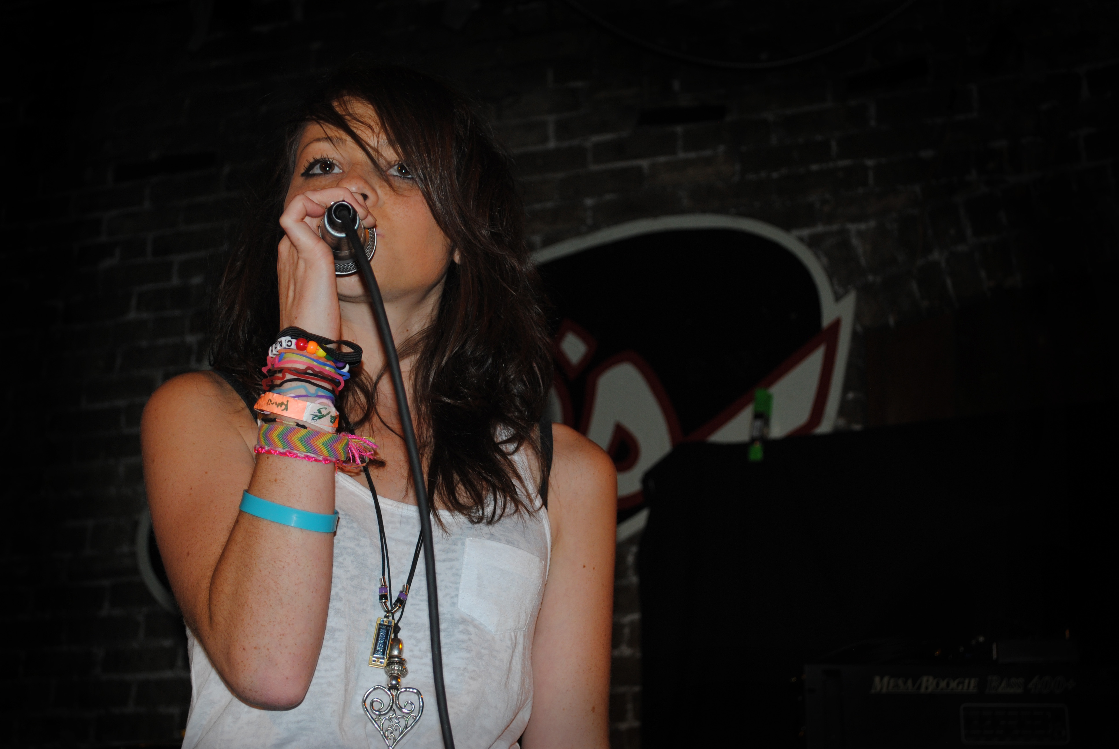 Singer and songwriter Cady Groves